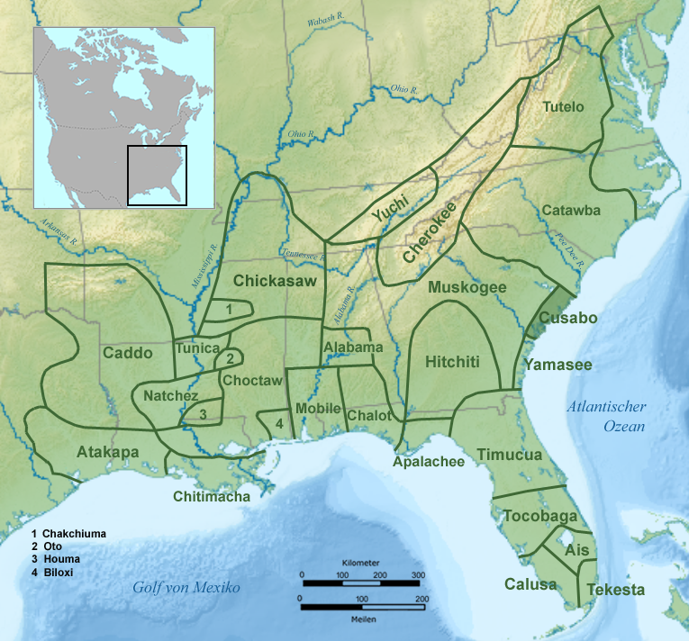 Tribal territory of Cusabo during seventeenth century